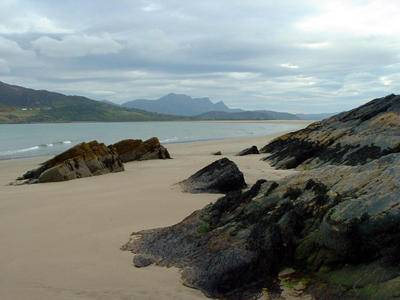 Beautiful beaches at Melness, Tongue. Truly unspoilt beaches in this area. Hidden caves too.